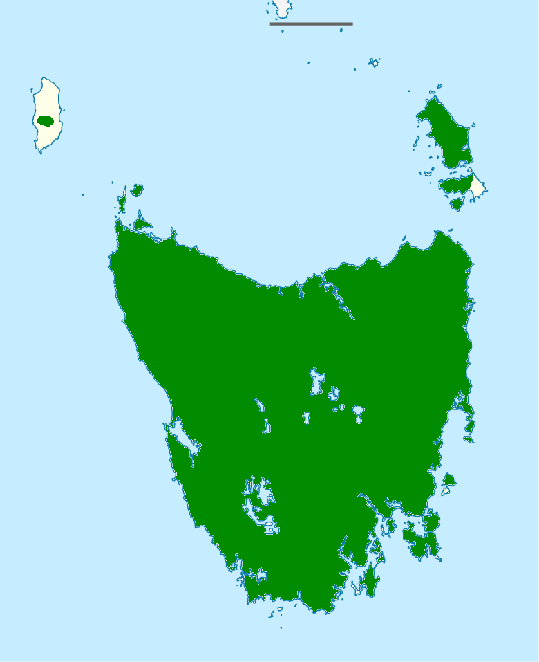 Range of Green rosella (Platycercus caledonicus). Data from Higgins, P.J. (1999) Handbook of Australian, New Zealand and Antarctic Birds. Volume 4: Parrots to Dollarbird, Melbourne, Victoria: Oxford University Press, p. 315 ISBN: 0-19-553071-3. Base map from File:Australia Tasmania location map blank.svg.